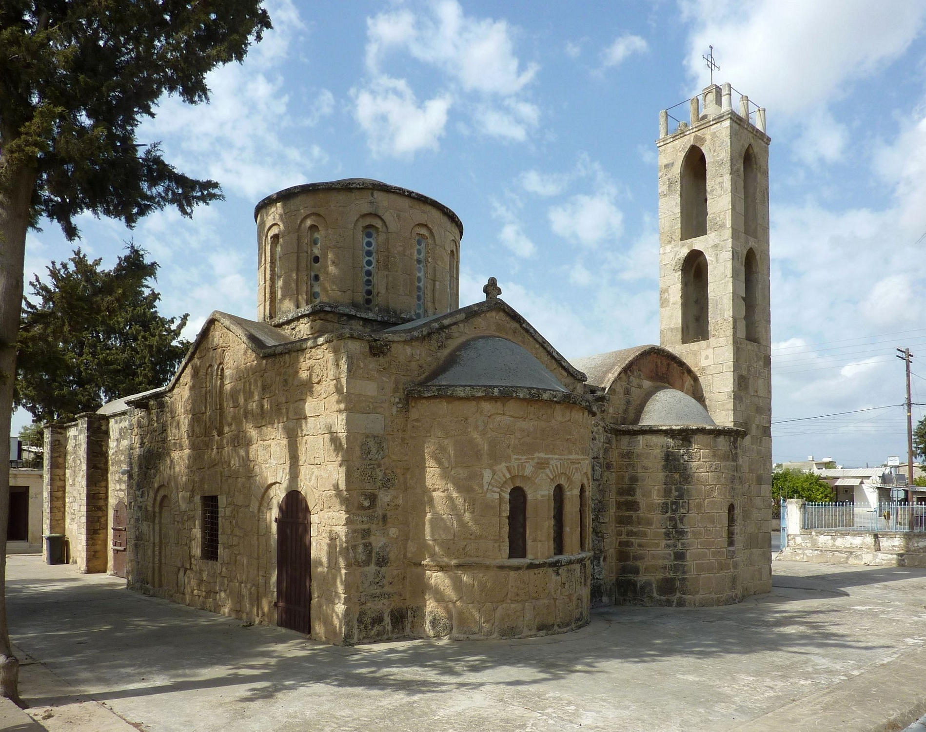 Panagia Theotokos, Iskele, Cyprus